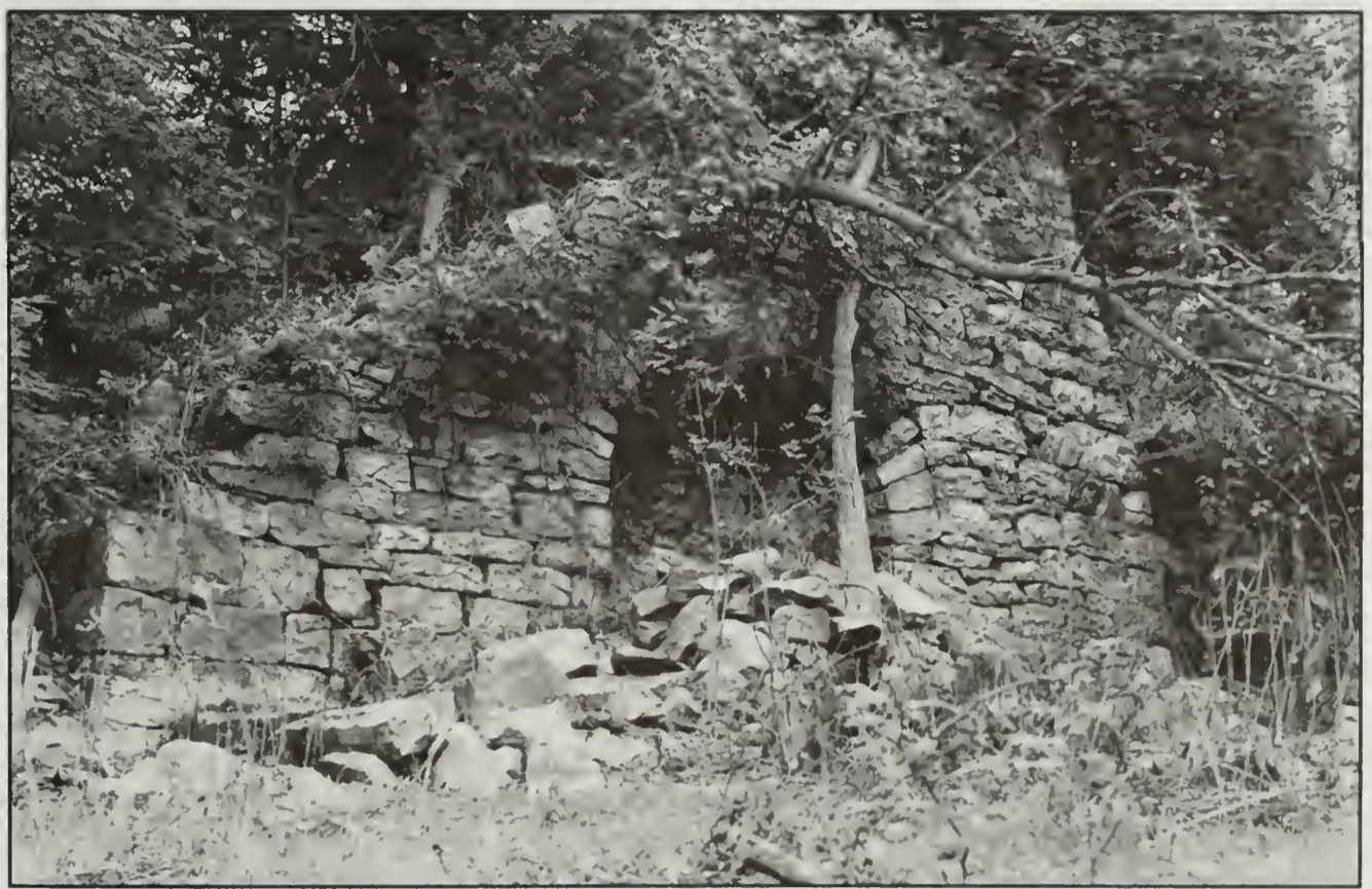 Remains of the Barre Furnace, Huntingdon County, Pennsylvania